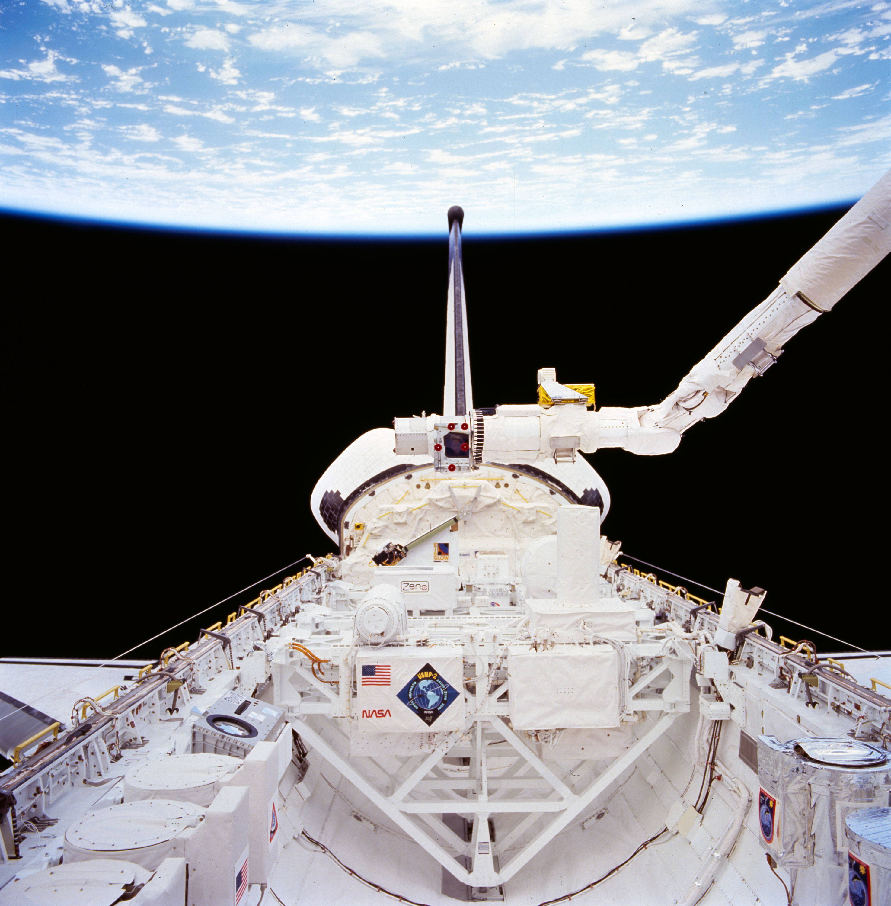 View of Columbia's payload bay during STS-62.